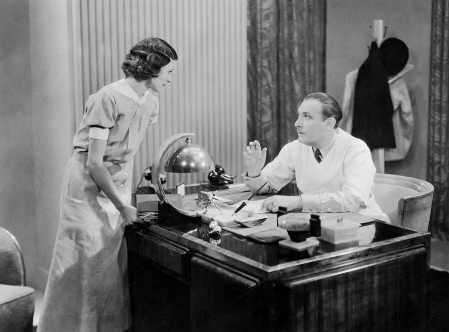 Still of Marceline Day and Lew Cody from the 1933 film By Appointment Only.